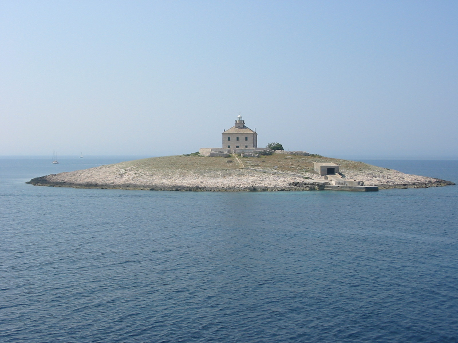 Island Pokonji Dol from the ferry between Hvar and KorčulaHrvatski: Pogled na otočić Pokonji Dol s trajekta Korčula - Hvar